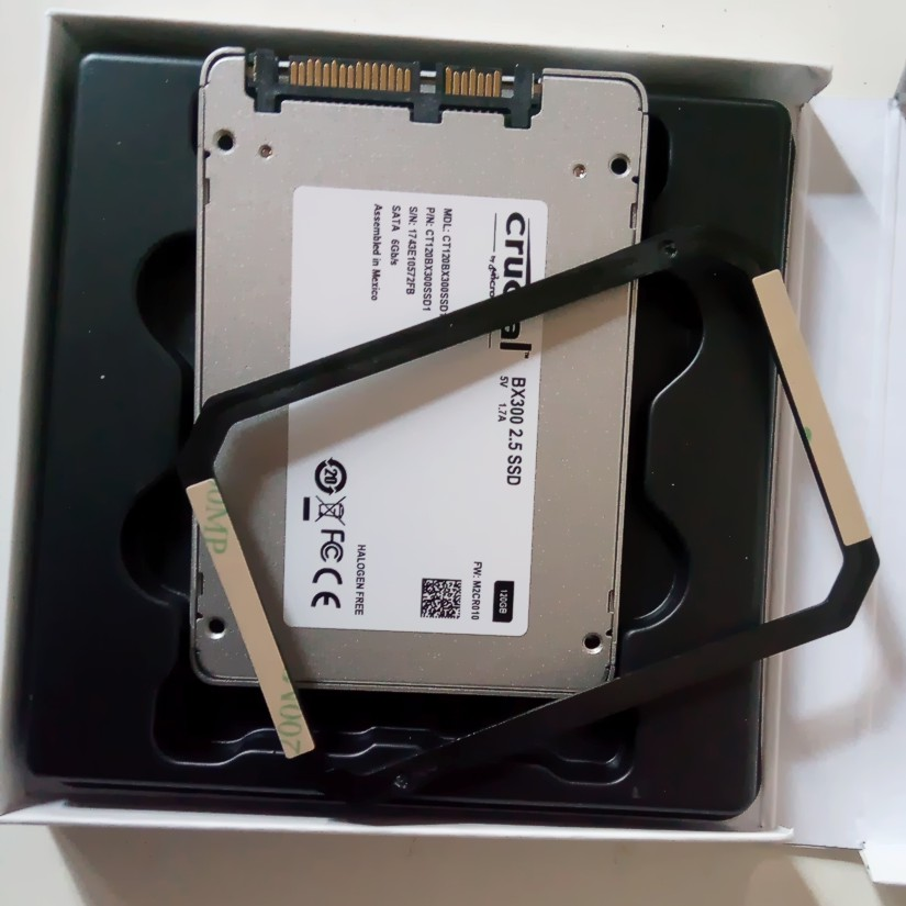 SSD unit with SATA connection, 7 mm thickness and 9.5 mm slot adapter